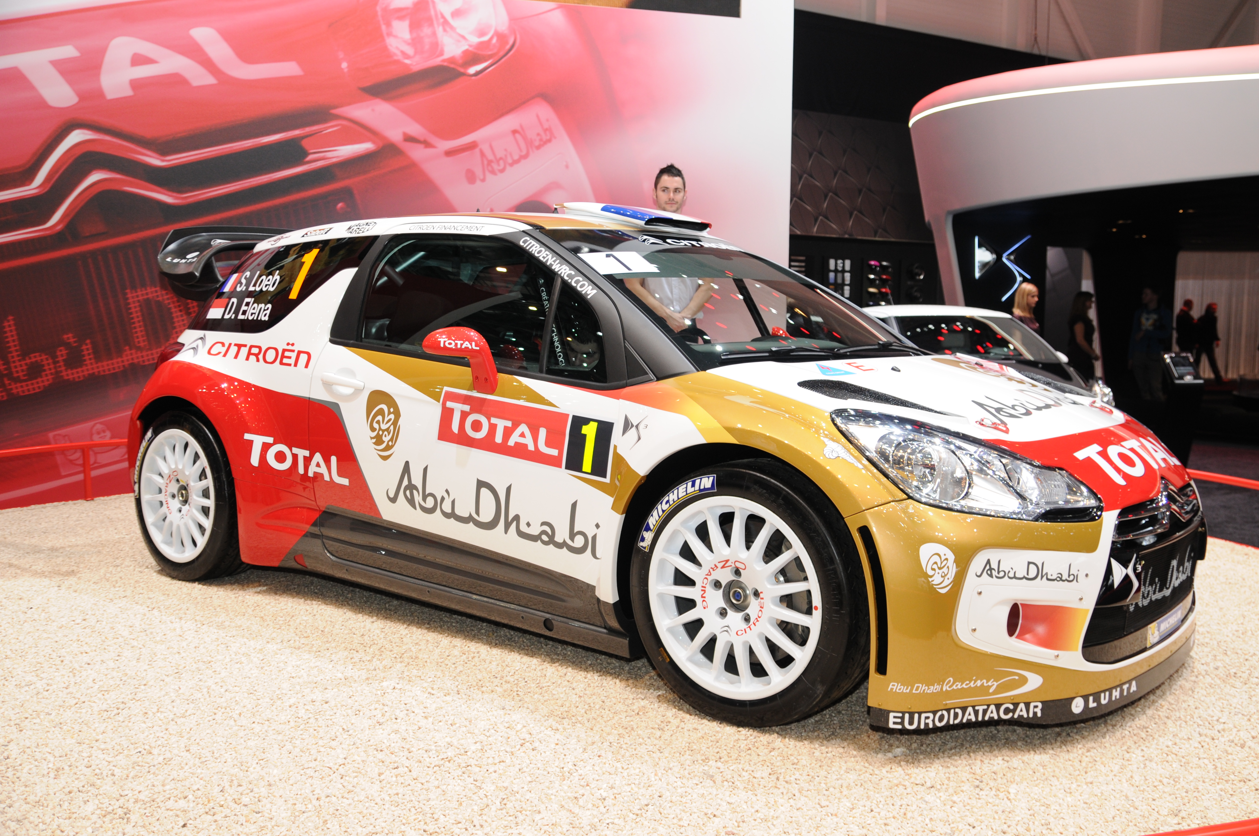 Geneva Motor Show 2013 (photos taken on the first press day)